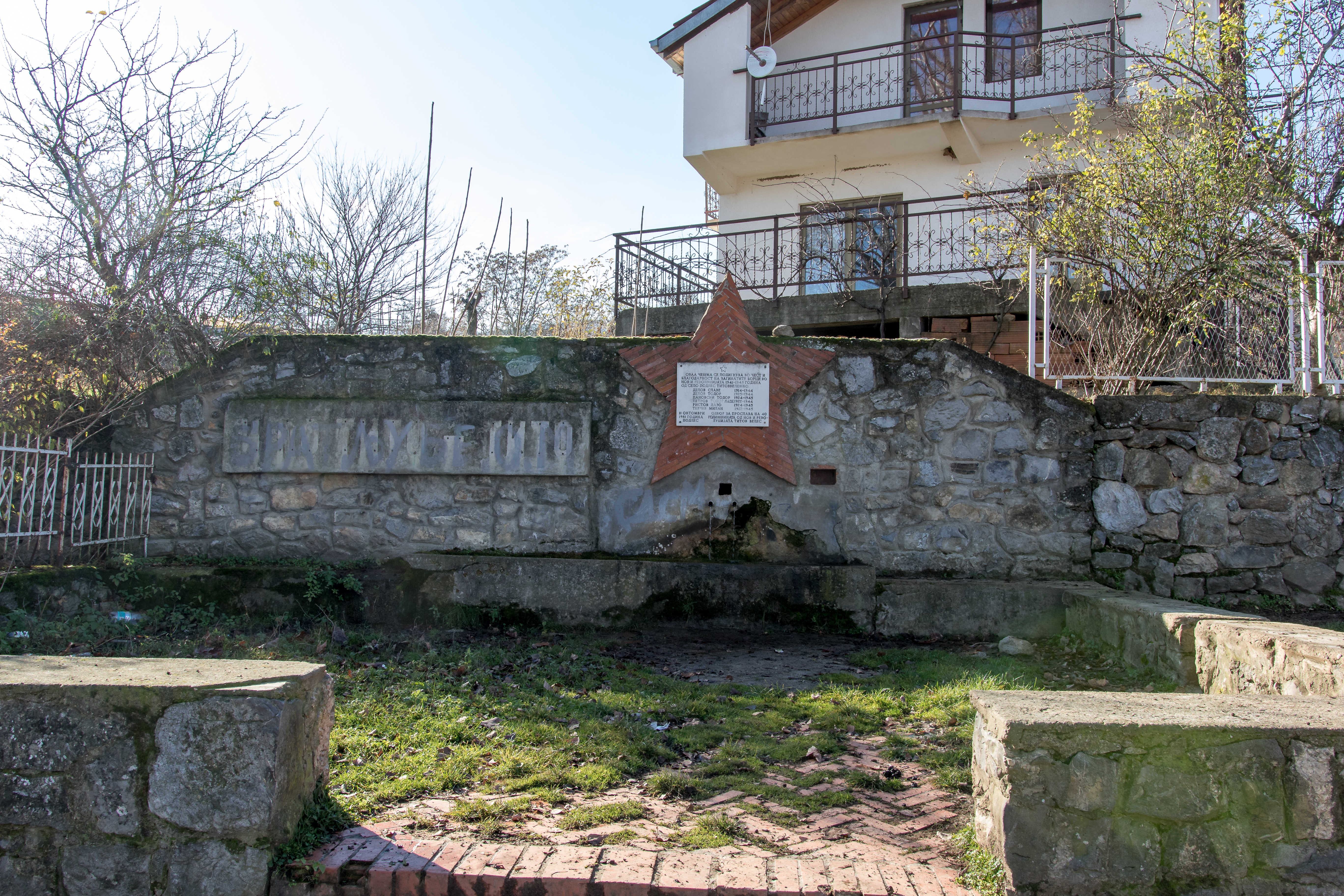 Memorial pump in honour of the fallen people from the village Podles